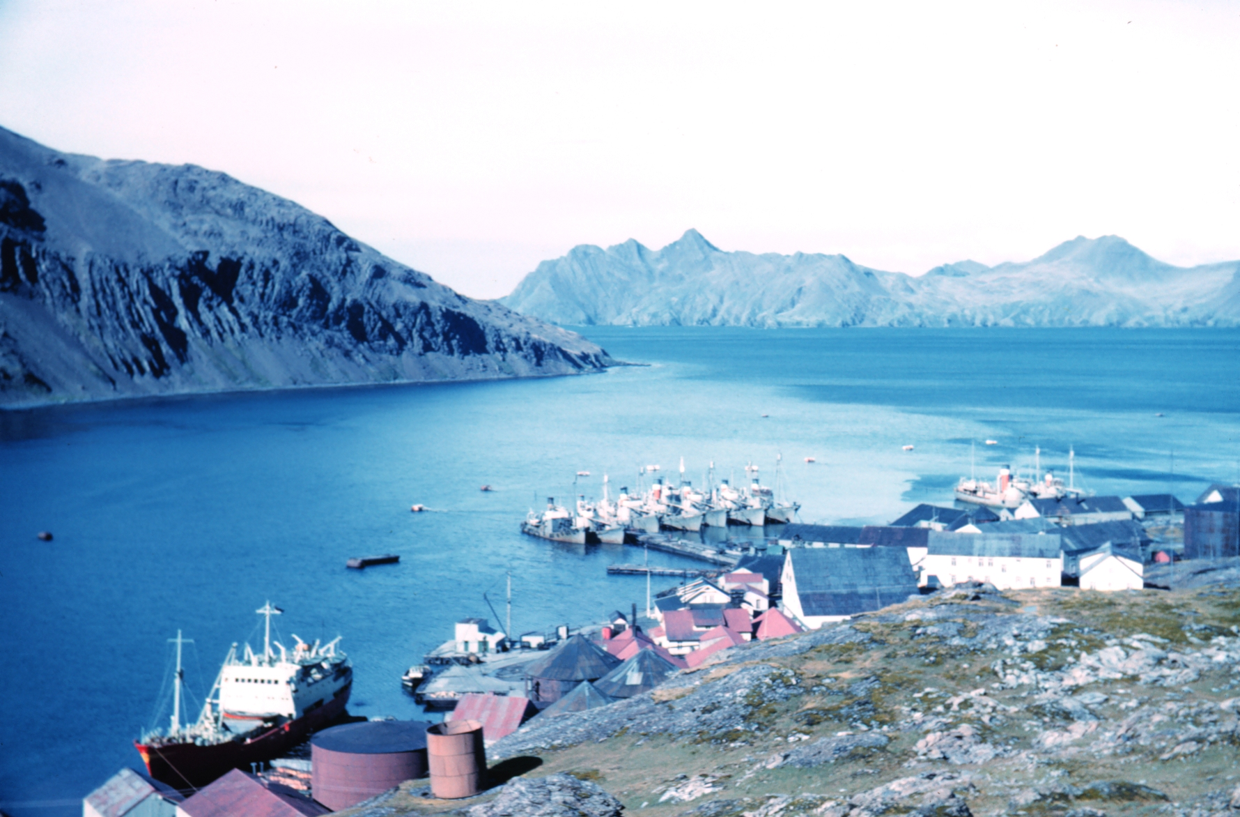 Leith whaling station, South Georgia- a fleet of whaling chase vessels layed up for good.